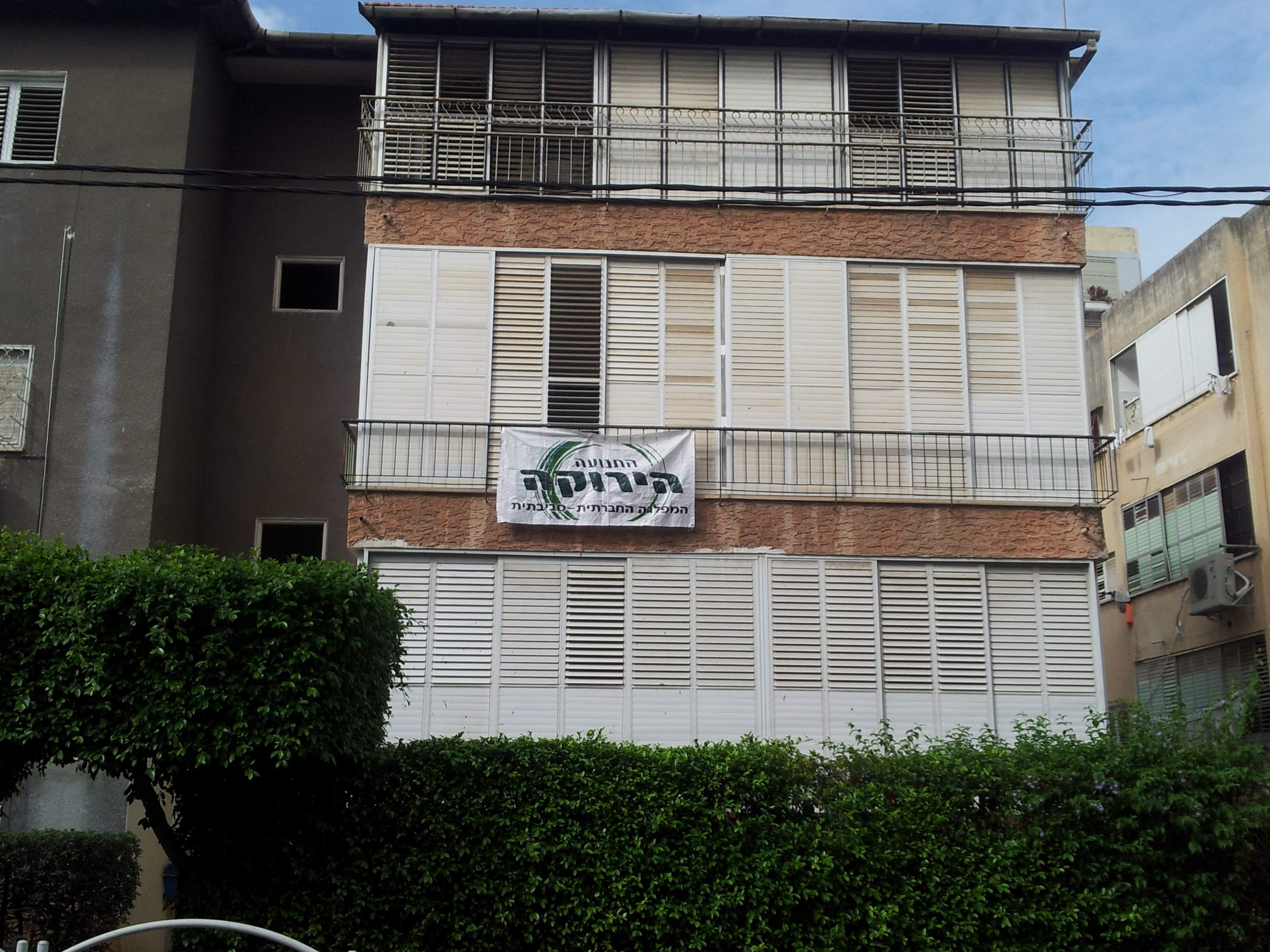 Israel Green-Socialist political party poster, Ramat-Gan